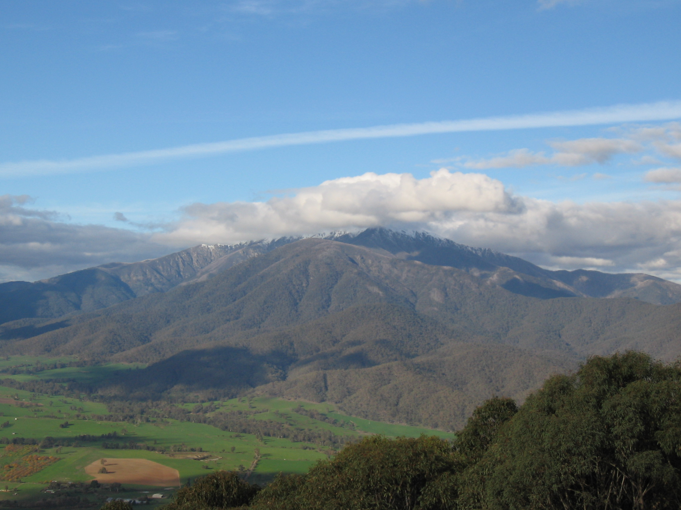 Mount Bogong in Victoria. Taken from Tawonga Gap lookout.